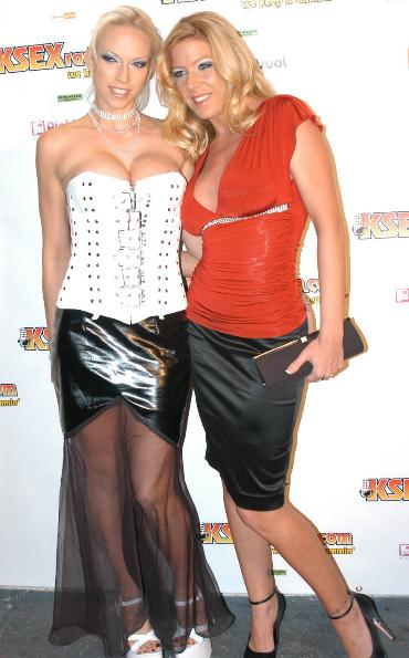 Nicki Hunter, Lexi Lamour at Listeners Choice Awards, December 2 2006